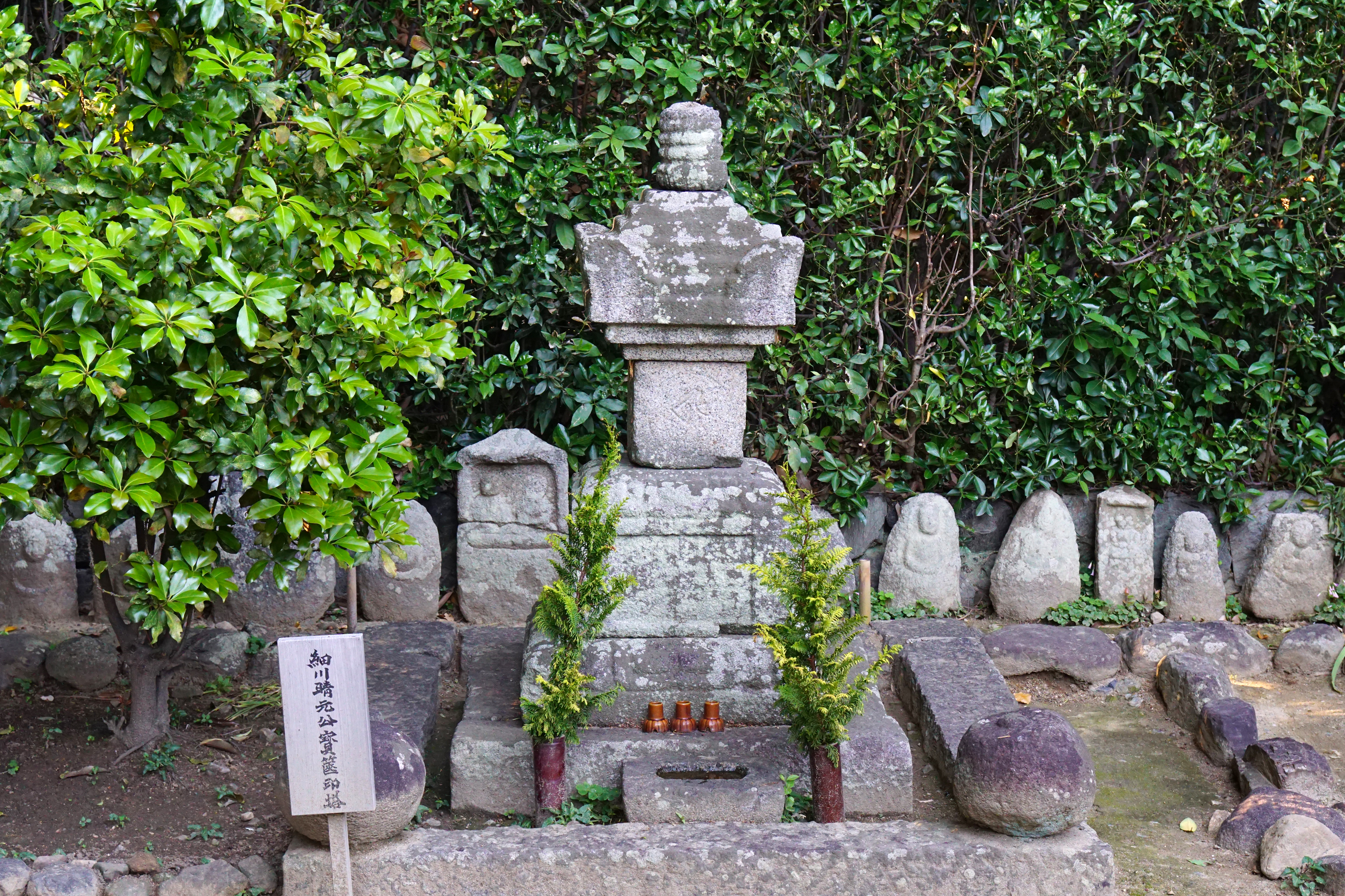 Fumonji in Takatsuki, Osaka prefecture, Japan